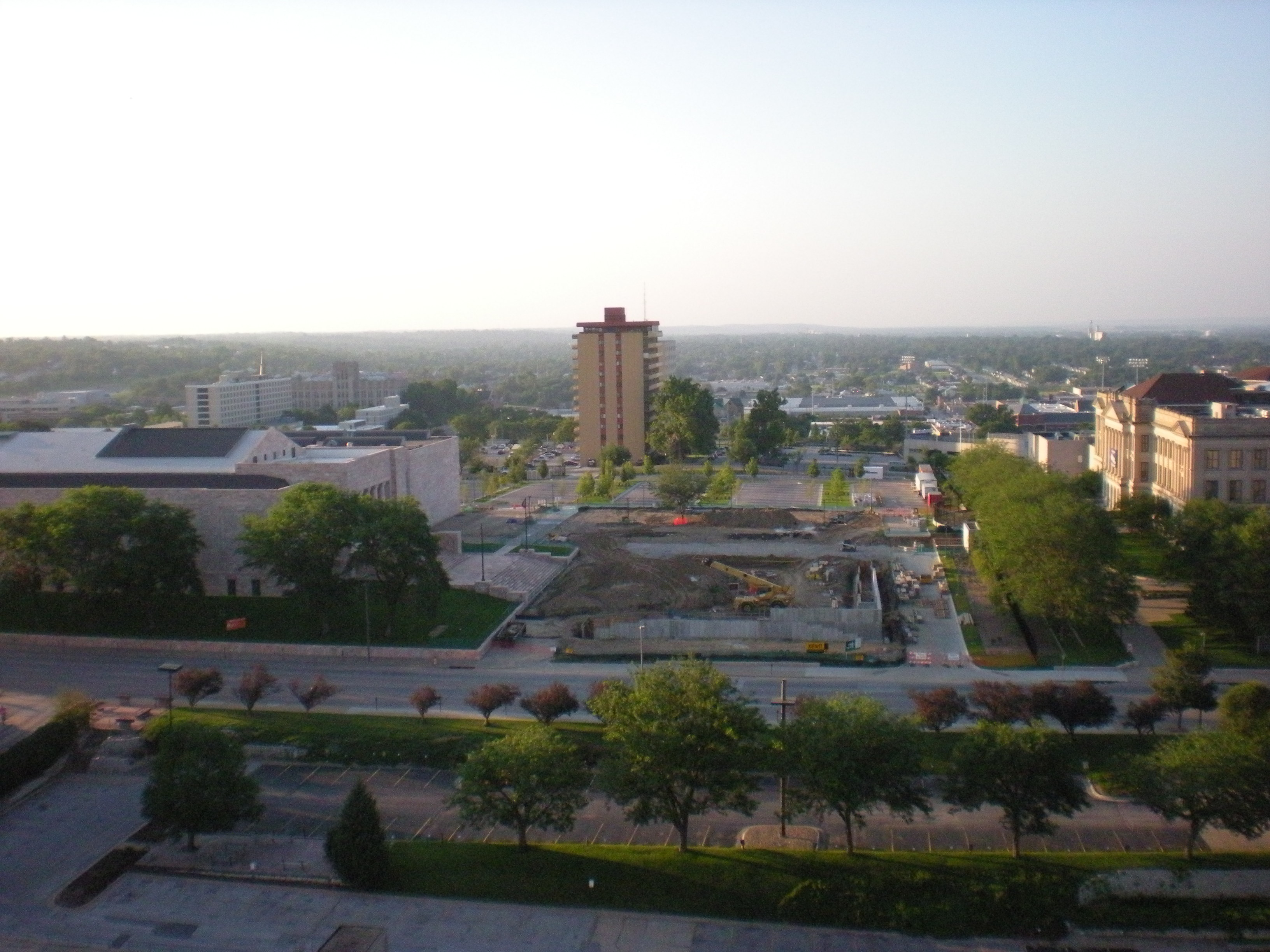 During construction of the Joslyn sculpture garden; summer 2008.